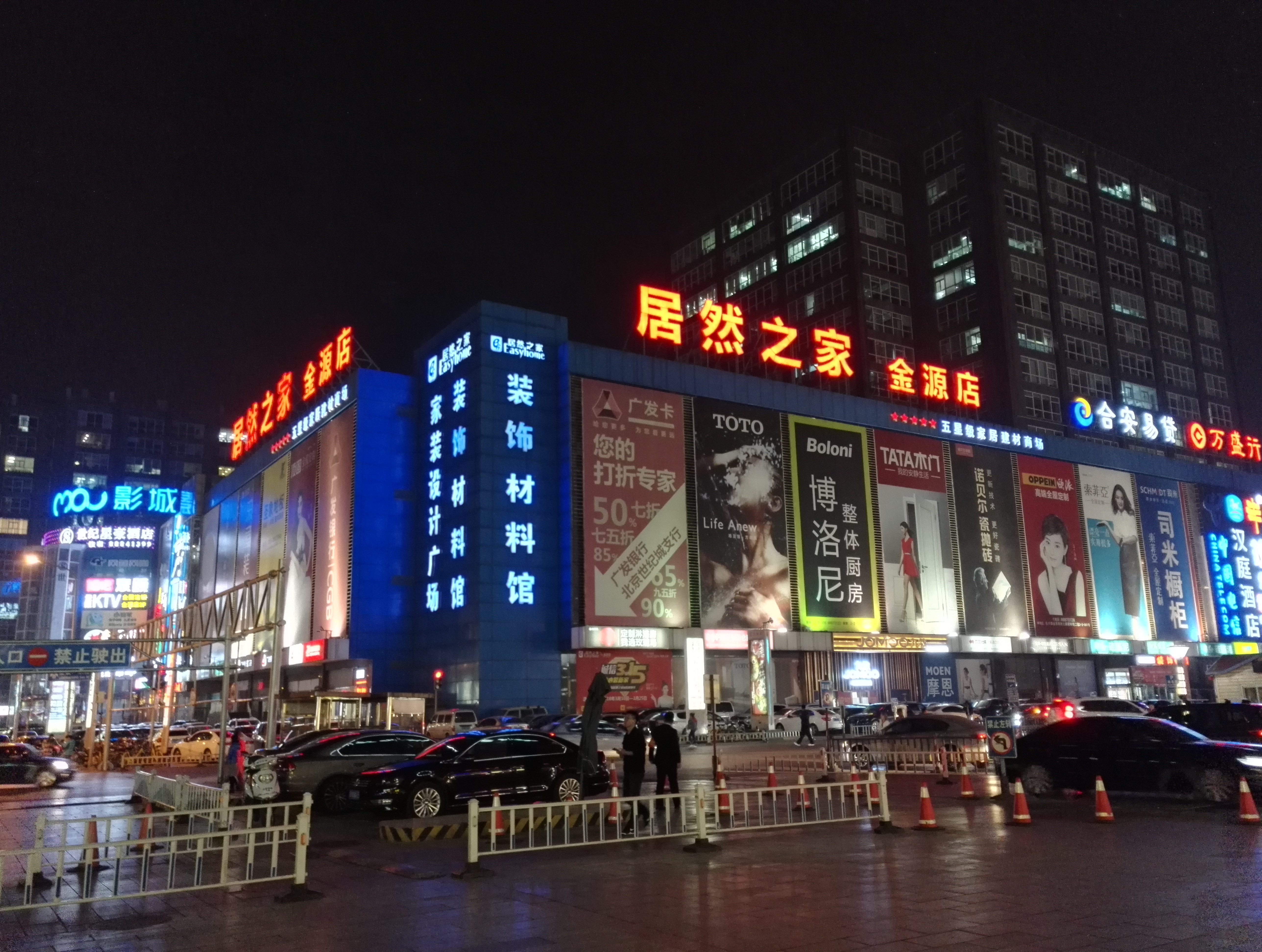 The exterior of Phase 2 Golden Resources Mall